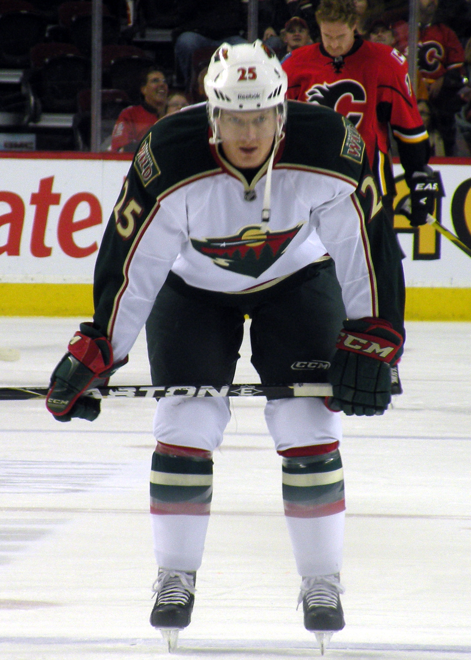 Minnesota Wild defenceman Nick Johnson prior to a National Hockey League game against the Calgary Flames, in Calgary.